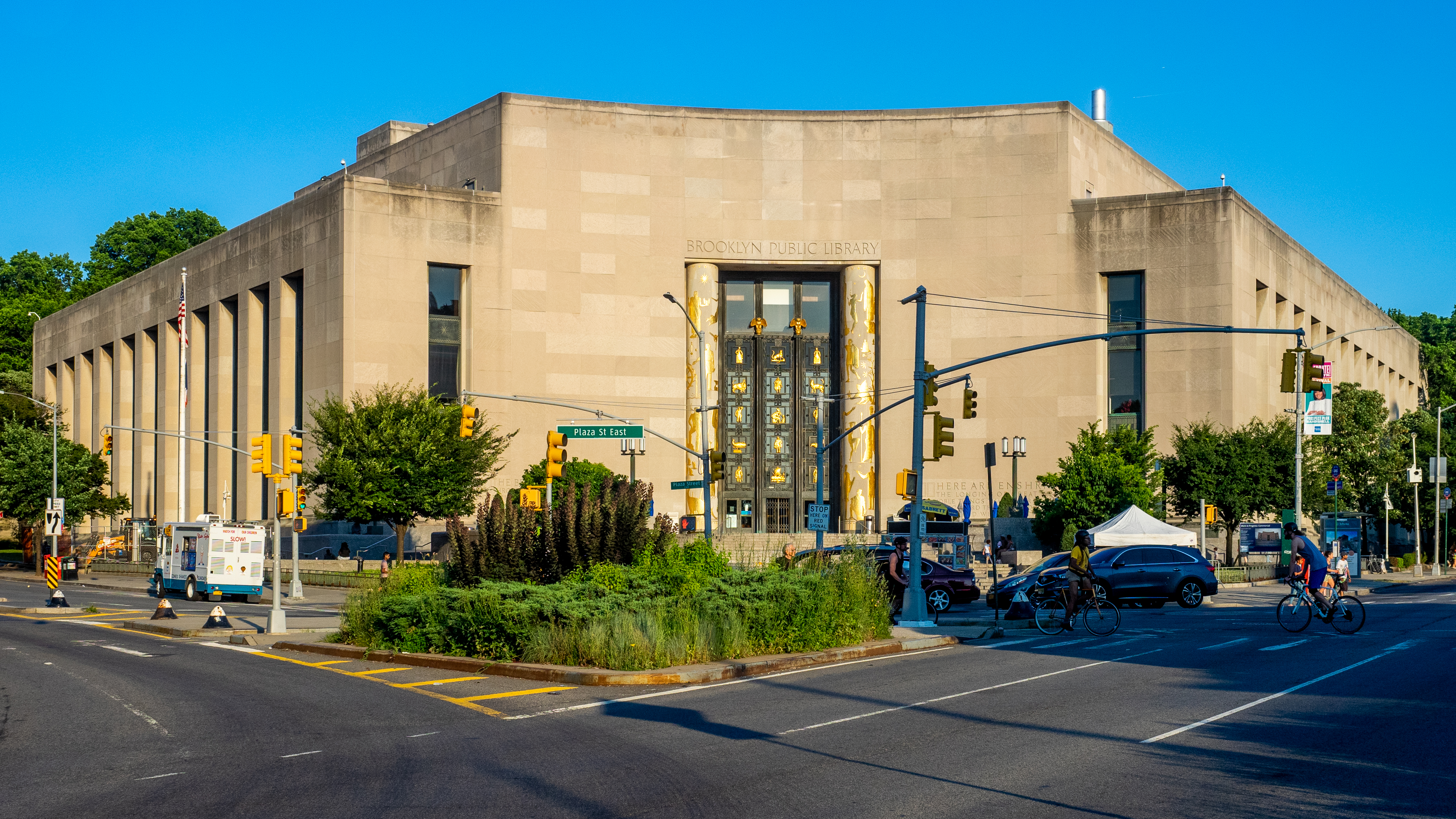 Prospect Park, Brooklyn, New York